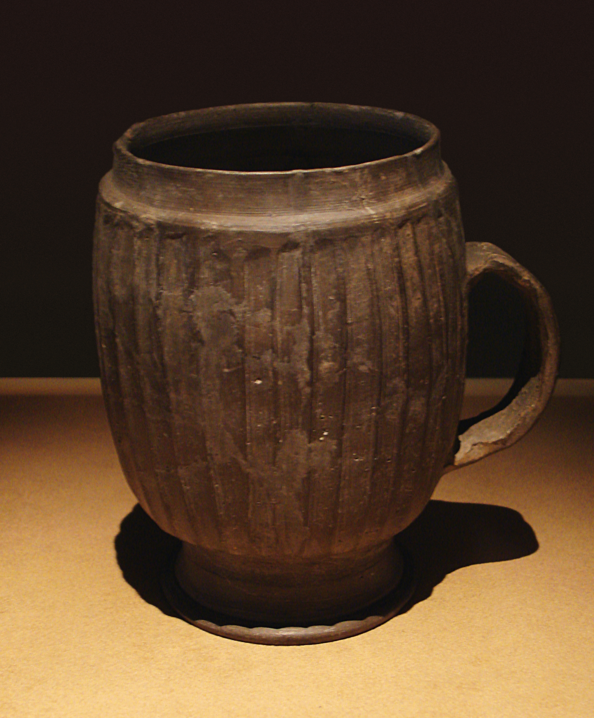 Large Gray Mug Henan Longshan Culture Late Neolithic Period (ca. 2500 - 2000 B.C.) Excavated at Zhengzhou, Henan Province, 1955 Made on a pottery wheel along the middle to lower reaches of the Yellow River. The shape of this cup's mouth indicates it may have once had a cover, and the proportional melon rind decoration suggests the potters of this culture understood the concept of dividing objects into equal parts.